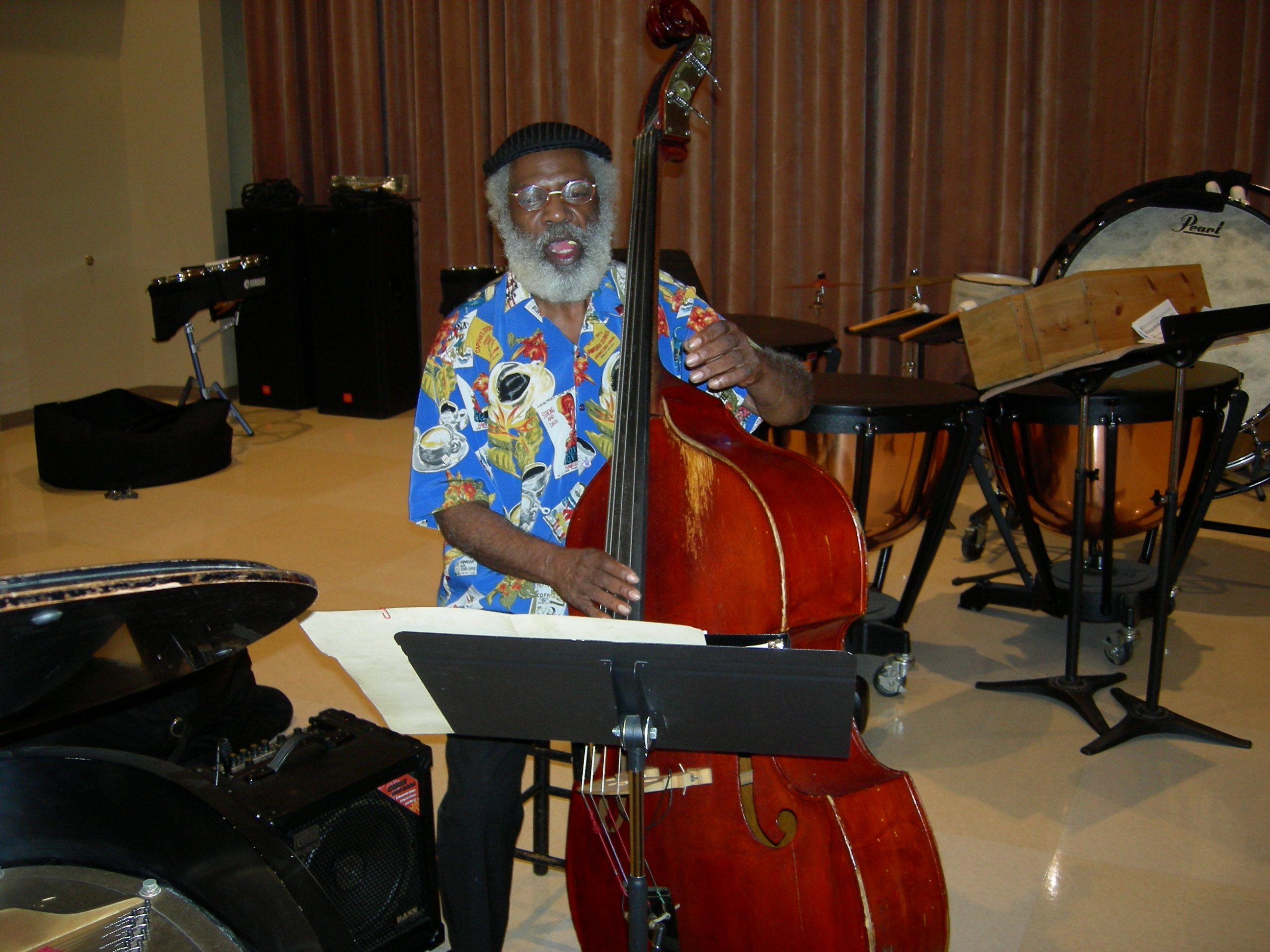 Cleve Eaton, rehearsing with the Ray Reach Quartet and Lew Soloff, for a performance at the 2008 Taste of 4th Avenue Jazz festival in Birmingham, Alabama.